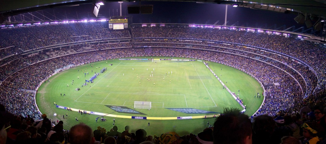 Panoramic image of the Melbourne Cricket Ground during a friendly international football game between Australia and Greece on 25 May 2006.